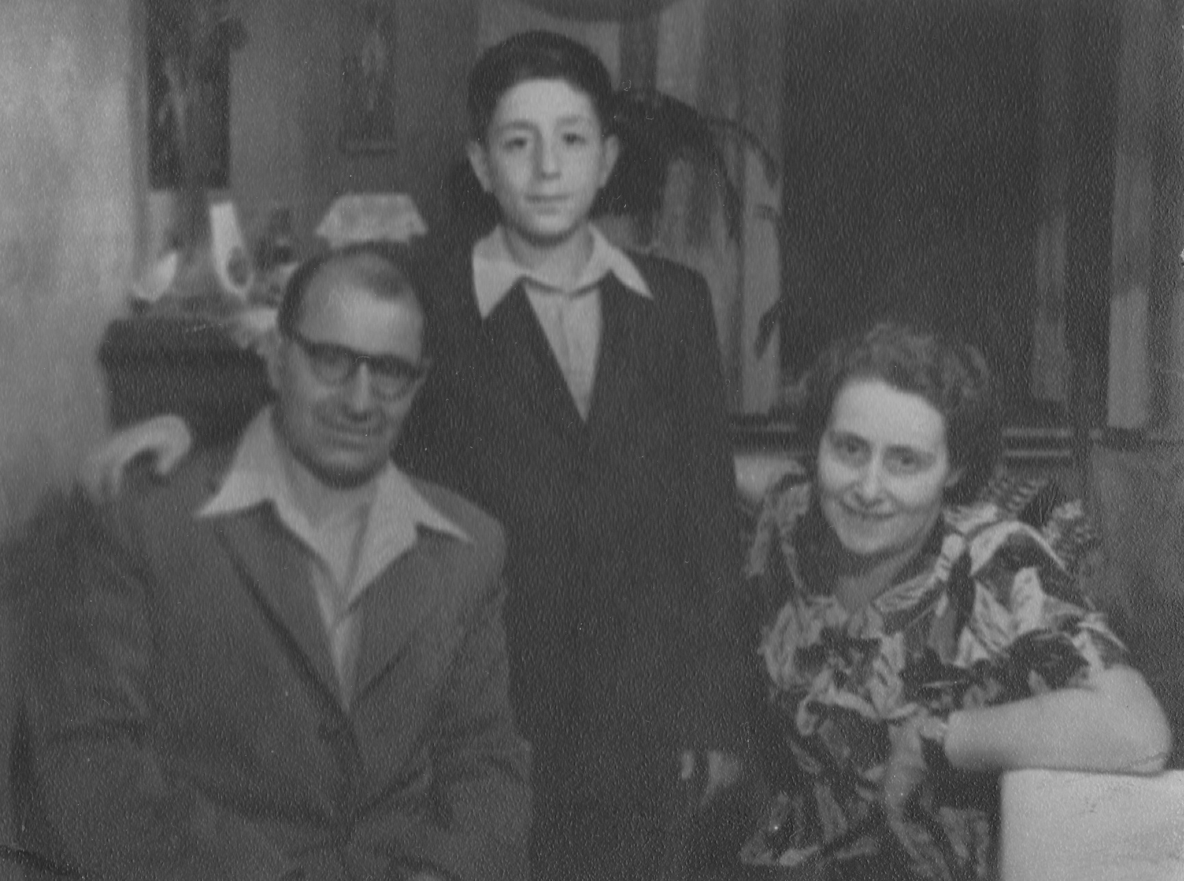 Family picture